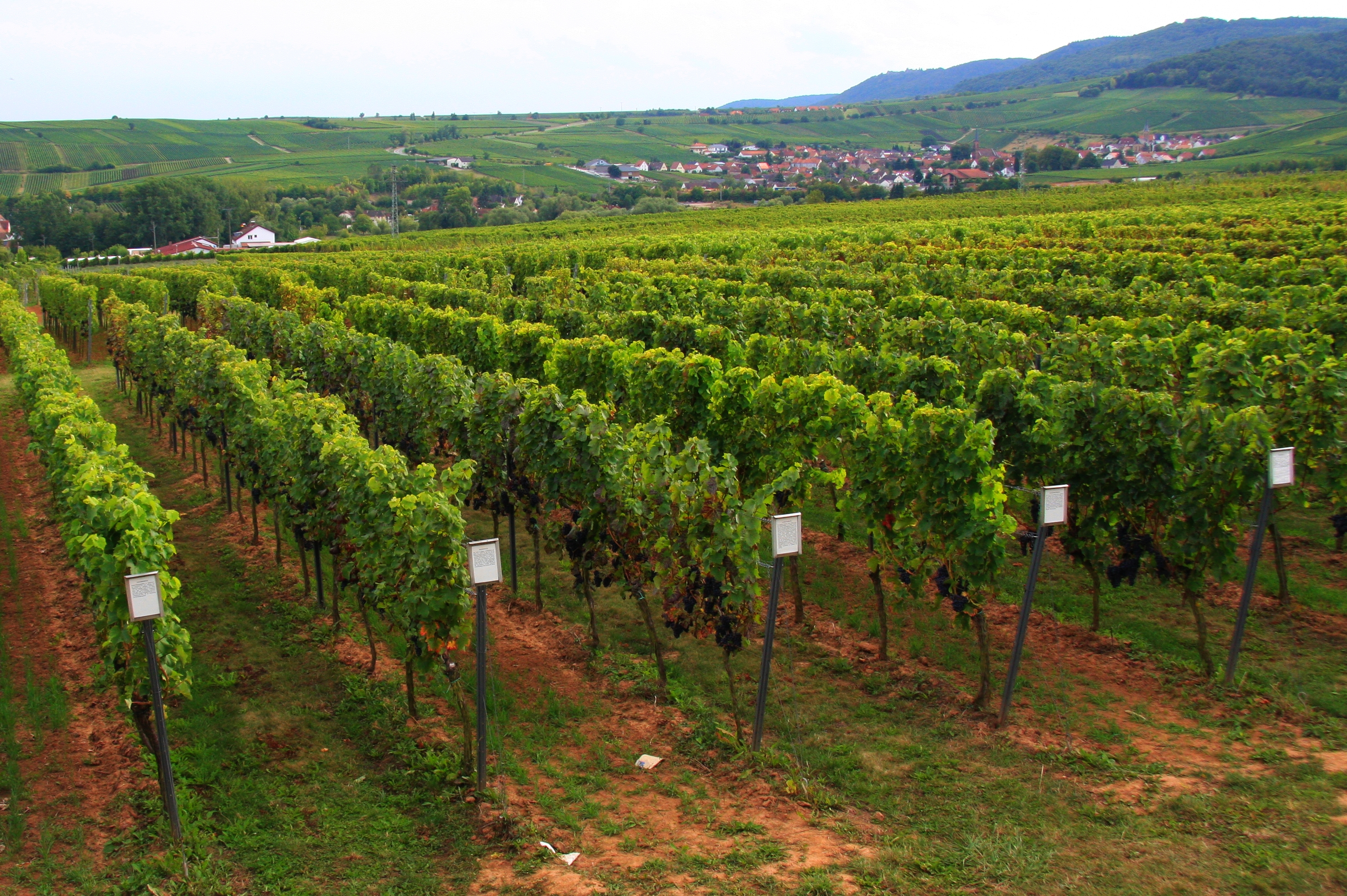 Experimental plot in Institut für Rebenzüchtung Geilweilerhof